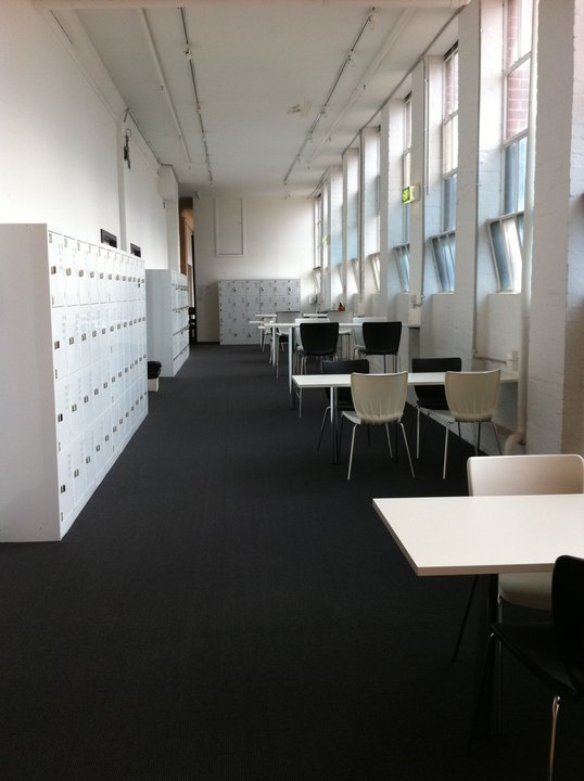 Inside the Southern School of Natural Therapies (SSNT) campus